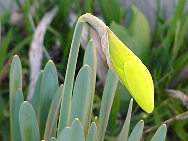 Valentine's Day, 2002.